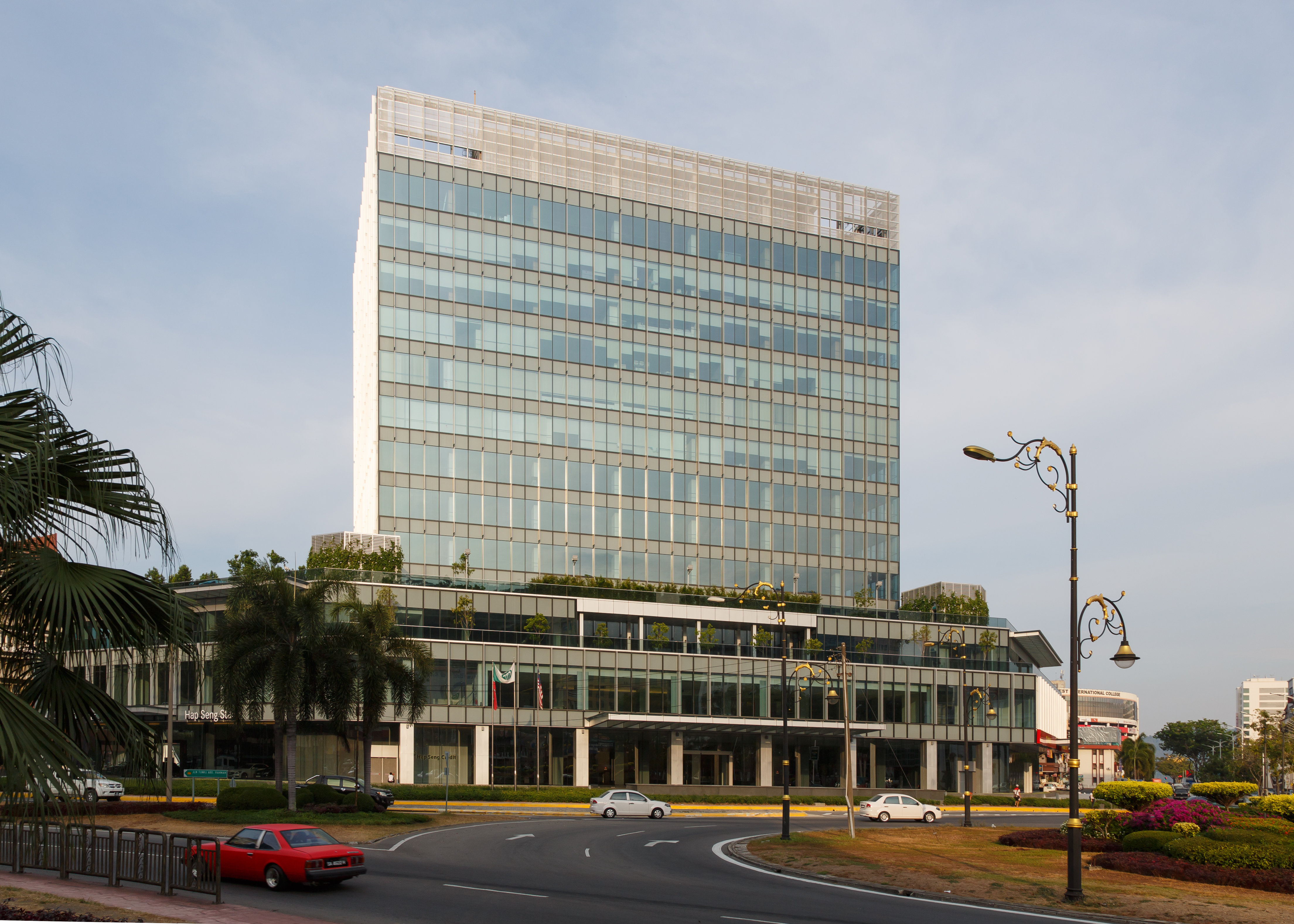 Kota Kinabalu, Sabah: The Plaza Shell Building, inaugurated in November 2015